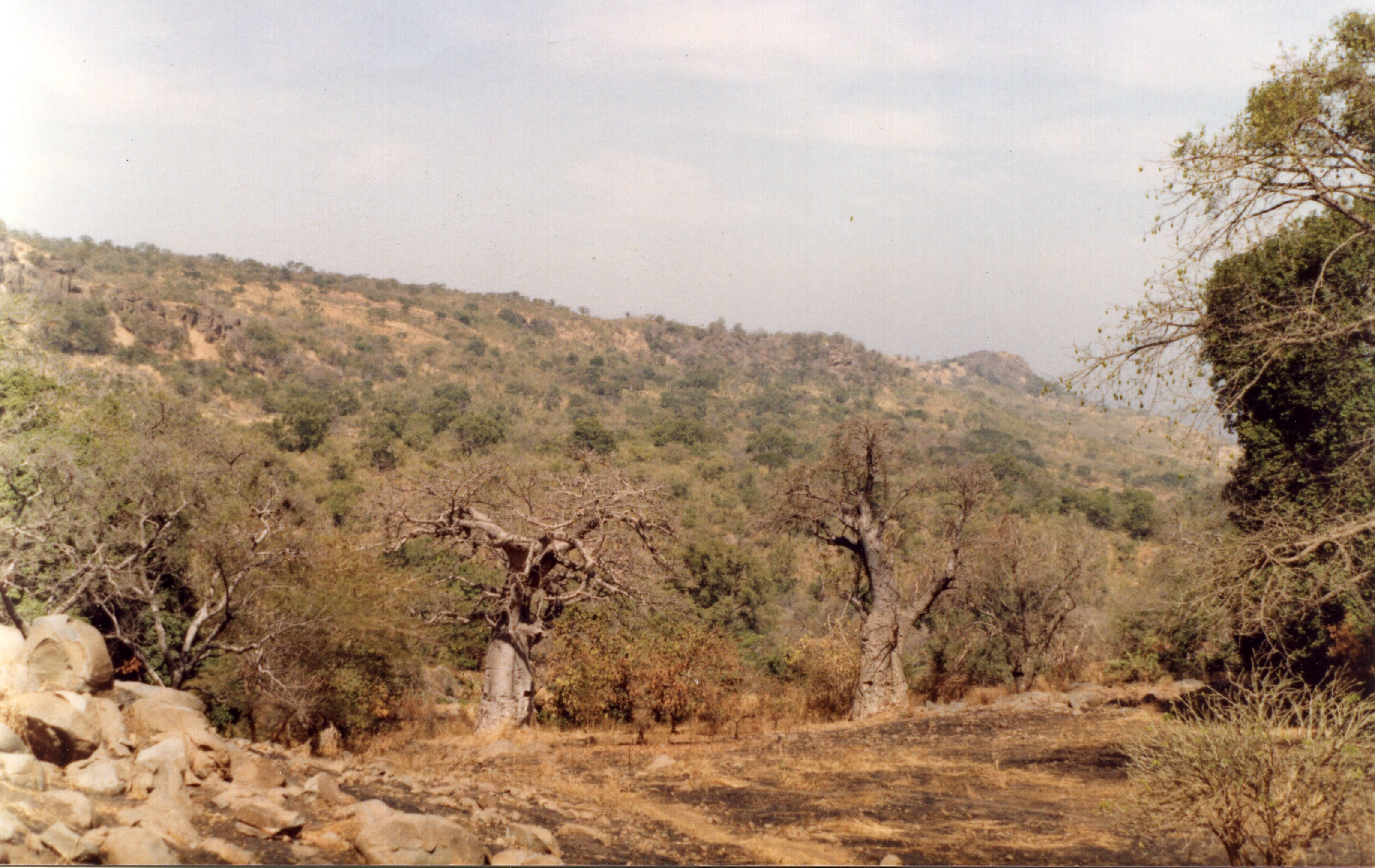 Between Ibel and Bandafassi, southeast Senegal (West Africa)